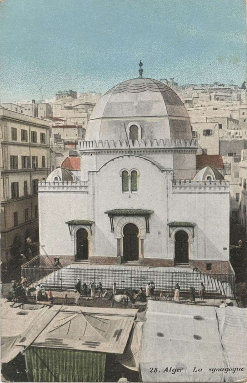 Postcard of Great Synagogue of Algiers